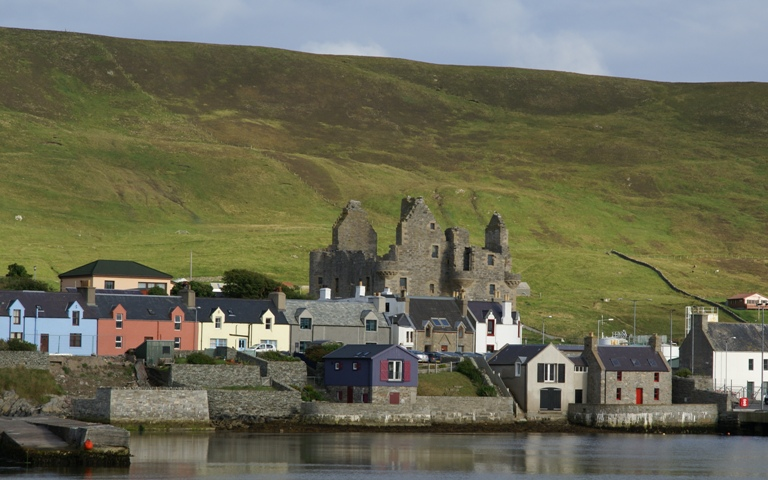 Scalloway, Shetland, Scotland - in the centre Scalloway Castle